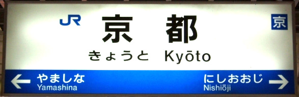 West Japan Railway Tokkaido Line Kyoto Station Station Signboard 西日本旅客鉄道 東海道本線 京都駅駅名標